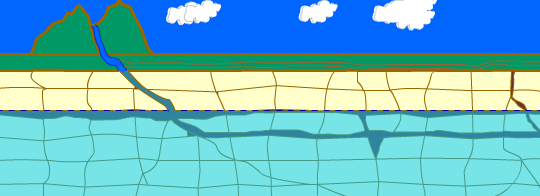 Image showing an intermediary stage of speleogenesis in Karst topography. The water has created several cavities in the rock. The development of the cave follows the layers of sedimentation and fractures along the rock.